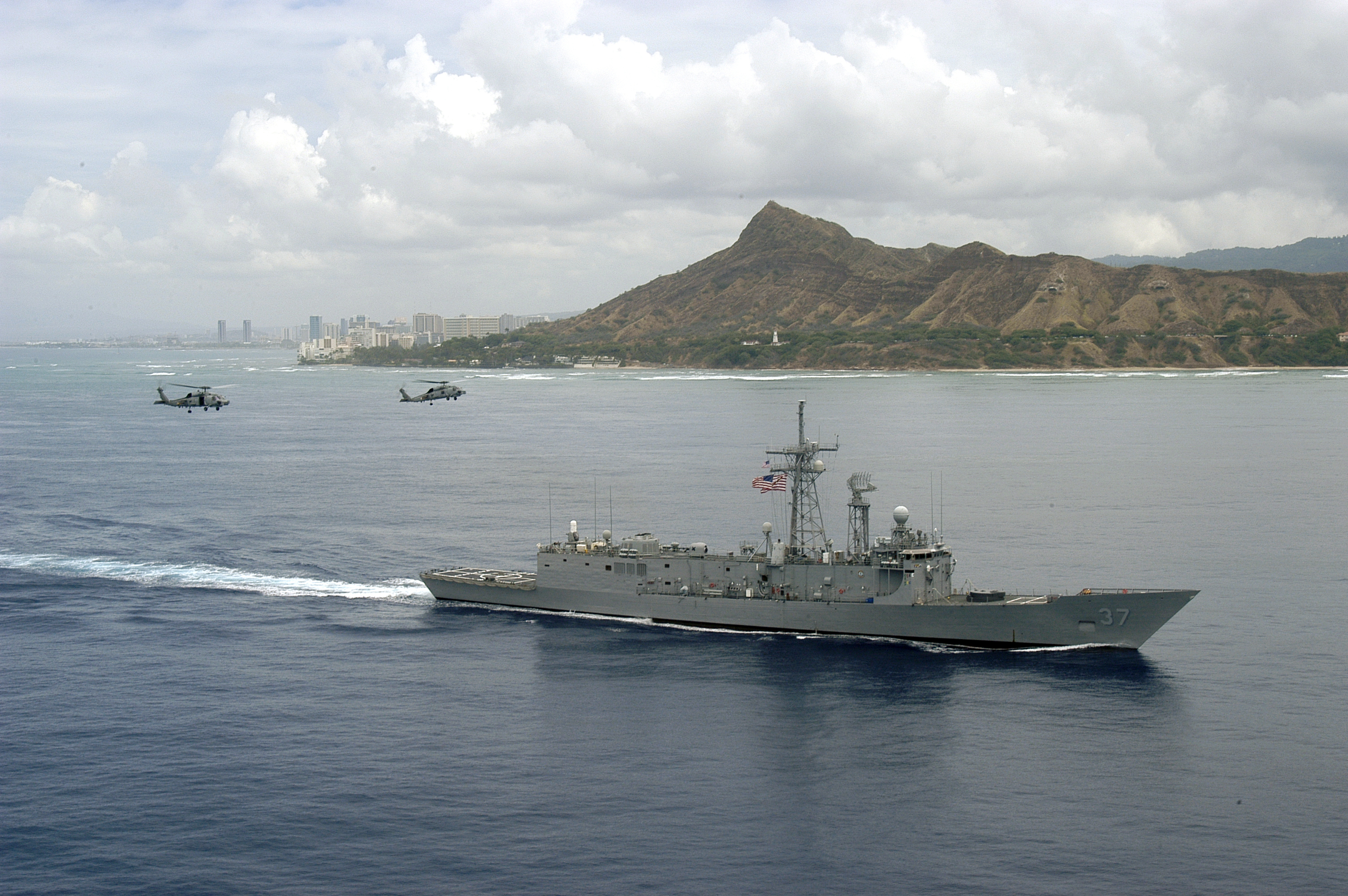 Pearl Harbor, Hawaii (May 12, 2004) – Two SH-60F Seahawks assigned to the "Easy Riders" of Light Helicopter Anti-Submarine Squadron Three Seven (HSL-37) approach the guided missile frigate USS Crommelin (FFG 37) to join the ship as it departs on a scheduled six-month deployment. U.S. Navy photo by Photographer's Mate 2nd Class Dennis C. Cantrell. (RELEASED)